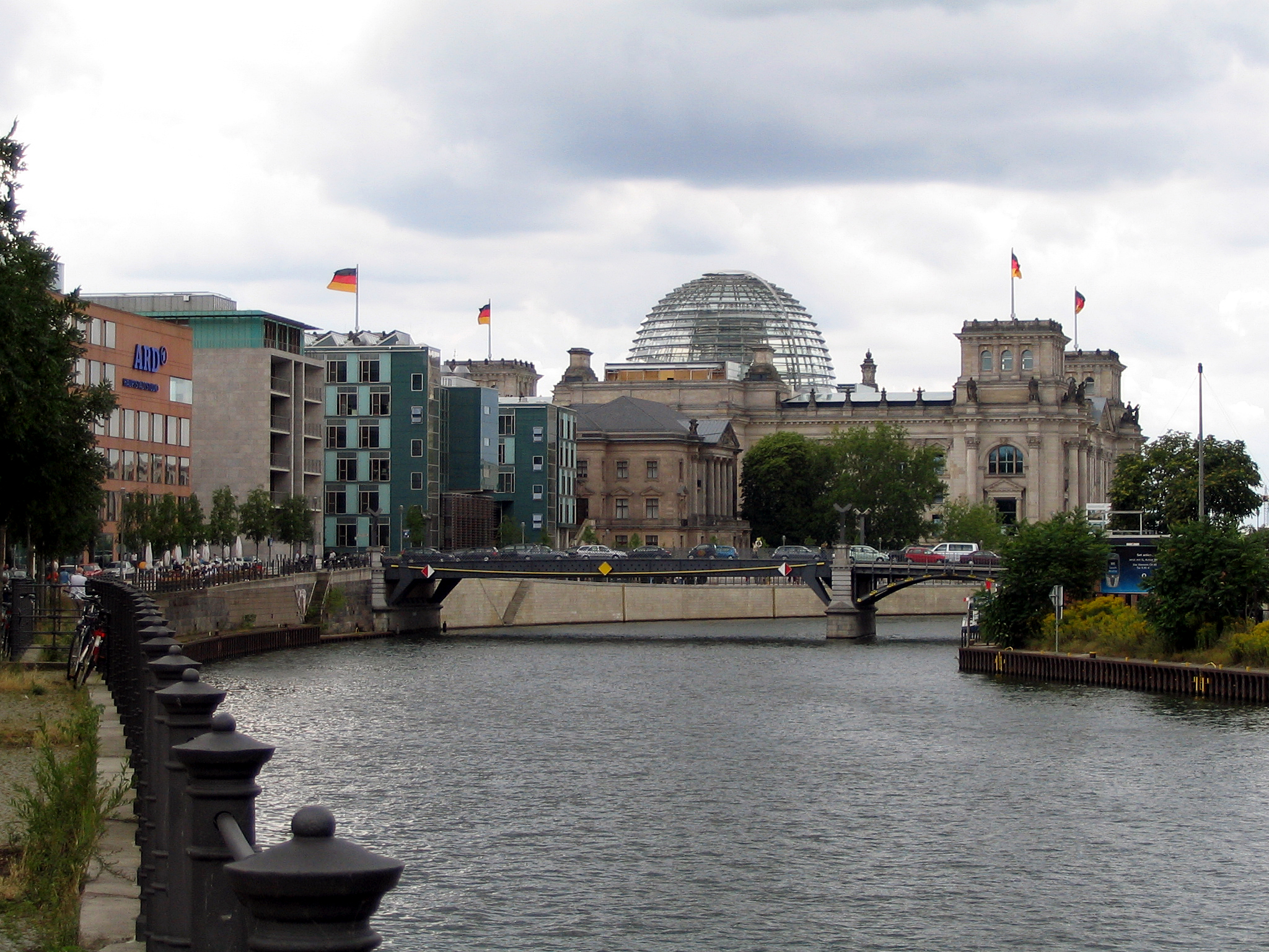 This image shows the capital studio of the ARD and the Reichstag in Berlin (Germany)